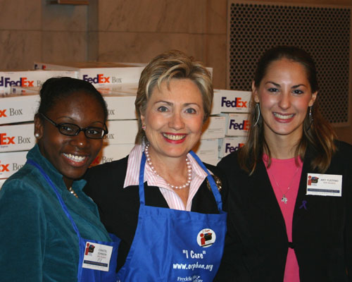 Hillary Clinton on National Care Package Day, 2005